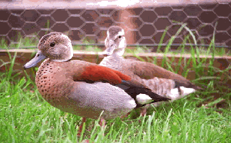 Ringed teal (Callonetta leucophrys )